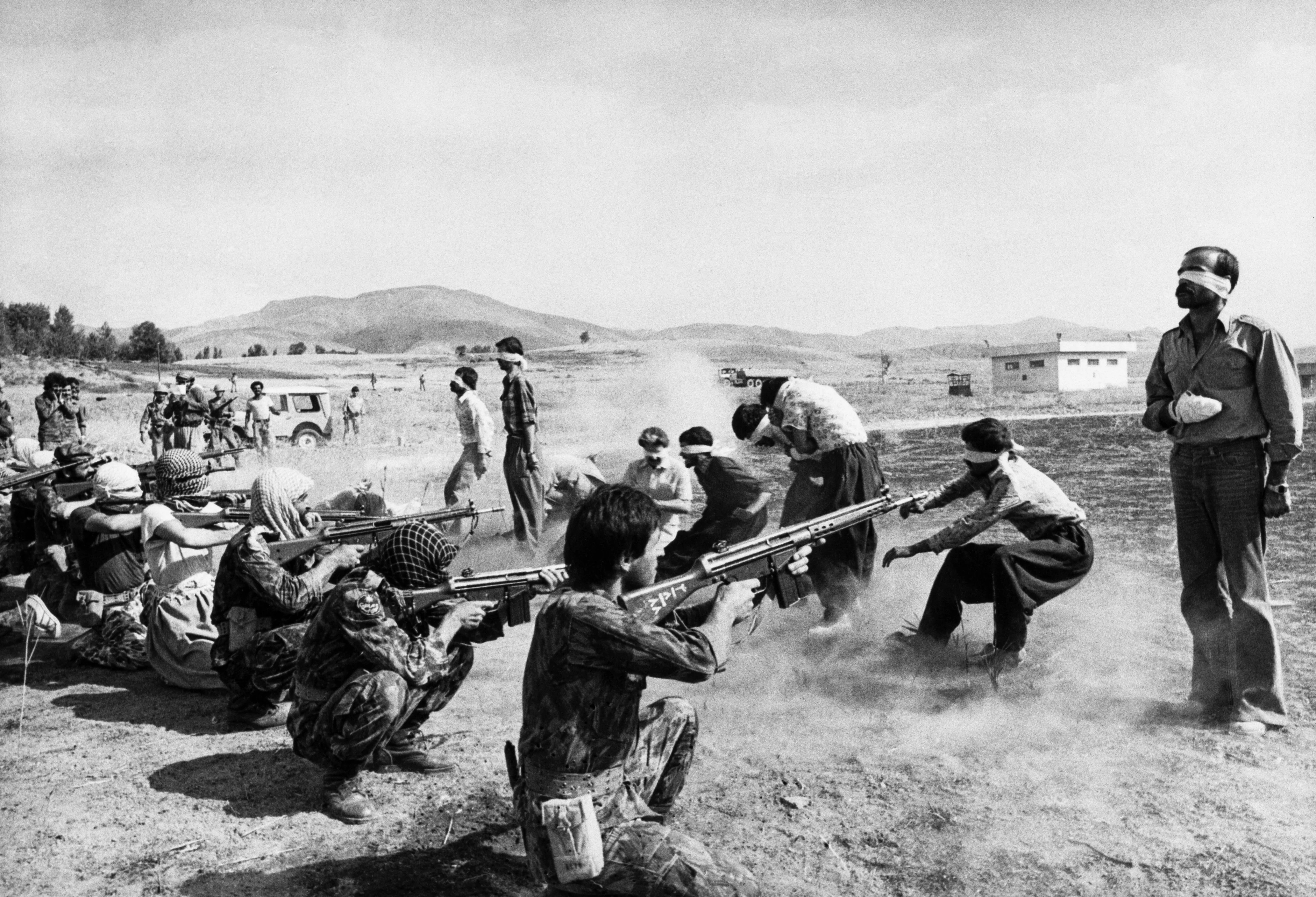 A revolutionary firing squad at the Sanandaj airport in Iran